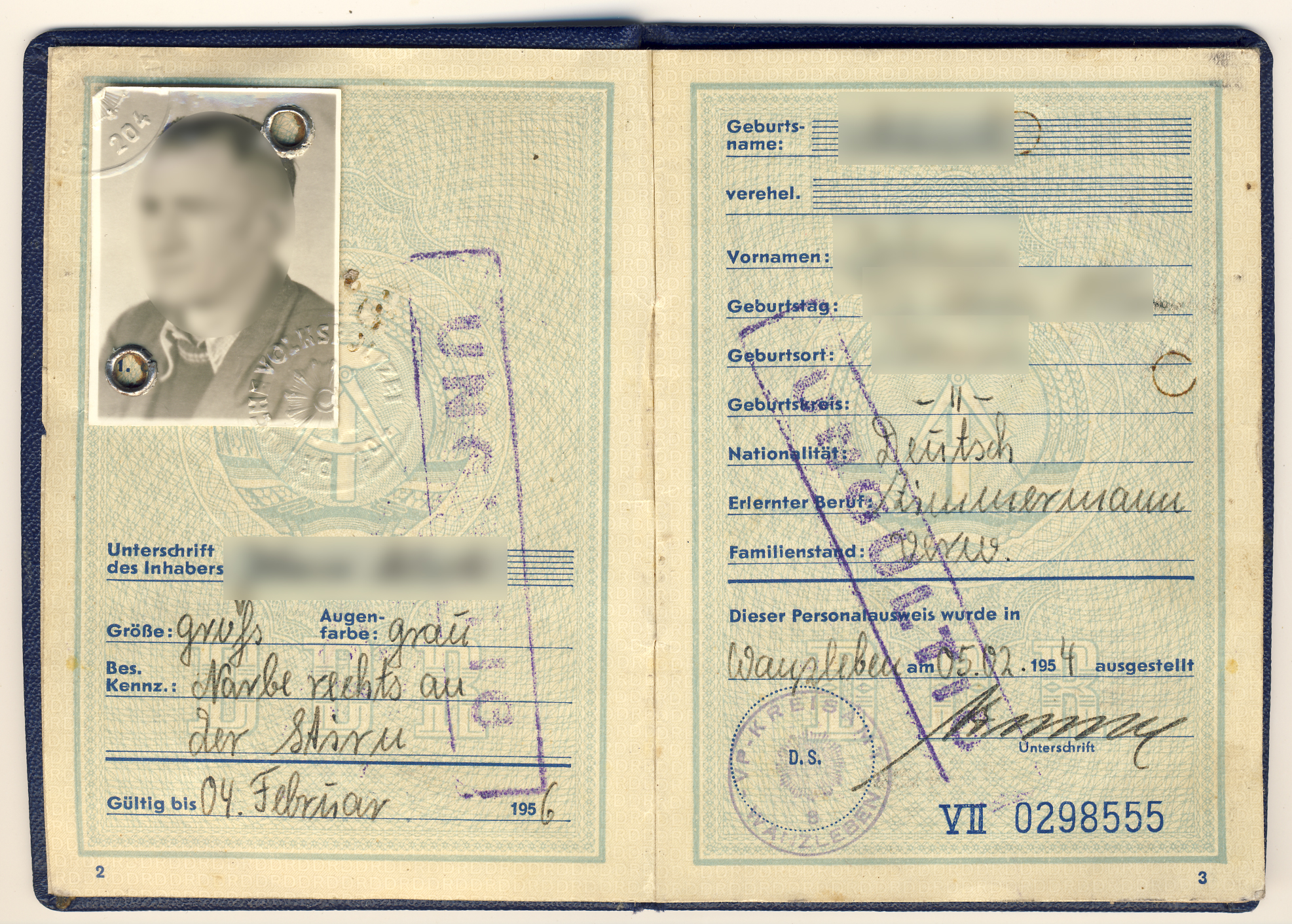 Passport of the German Democratic Republic; issued in 1954 (anonymized data).